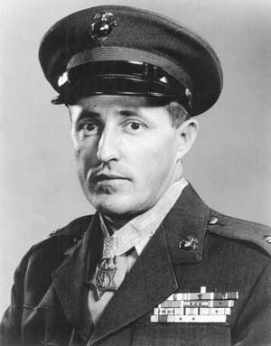 U.S. Marine Corps General Ray Davis, then a lieutenant colonel, in 1952. Medal of Honor recipient for his actions during the Korean War